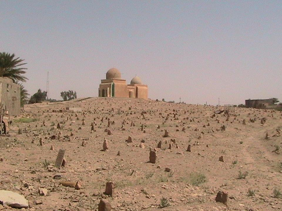 city of Rawa in Iraq